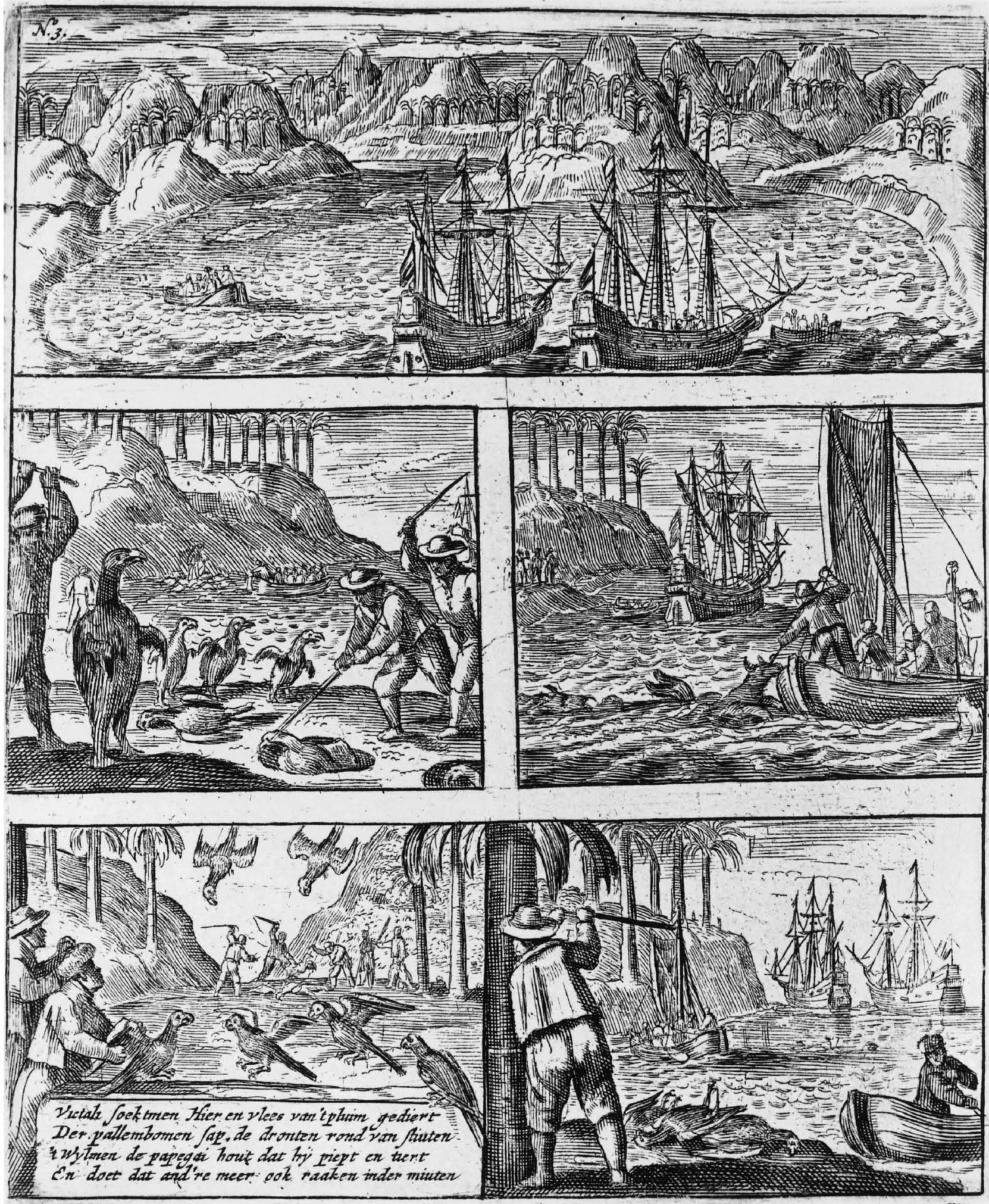 A hunt on dodos for food. The text with the engraving reads: Nourishment men seek here and flesh of't plumed creatures Of the palm trees' sap, the dodos round of hinds All while men the parrot hold that he pipes and shrieks And cause that others besides also befall the coops An engraving the publisher H. Soete Boom had made for the journal of Willem Van West-Zanen (c 1602) showing the killing of dodos (center left, depicted as penguin-like), a seacow (Dugong dugong, now extinct from the area) and perhaps Thirioux’s grey parrot (Psittacula bensoni, bottom).[1] Travellers on Mauritius described how easy it was to catch the parrot by capturing one and making it call out, which would summon an entire flock, and this is shown in the drawing. Willem van West-Zanen recalls in his travel report that his men took 50 birds aboard in one day, among which were 24 or 25 dodos, which in his estimation were sufficiently large that only two sufficed to feed the whole crew.[2]